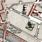 Sites of two historic theatres in Berlin near Bahnhof Jannowitz-Brücke: The (new) Wallner-Theater and the Residenz-Theater (at the left side of the old Wallner-Theater)